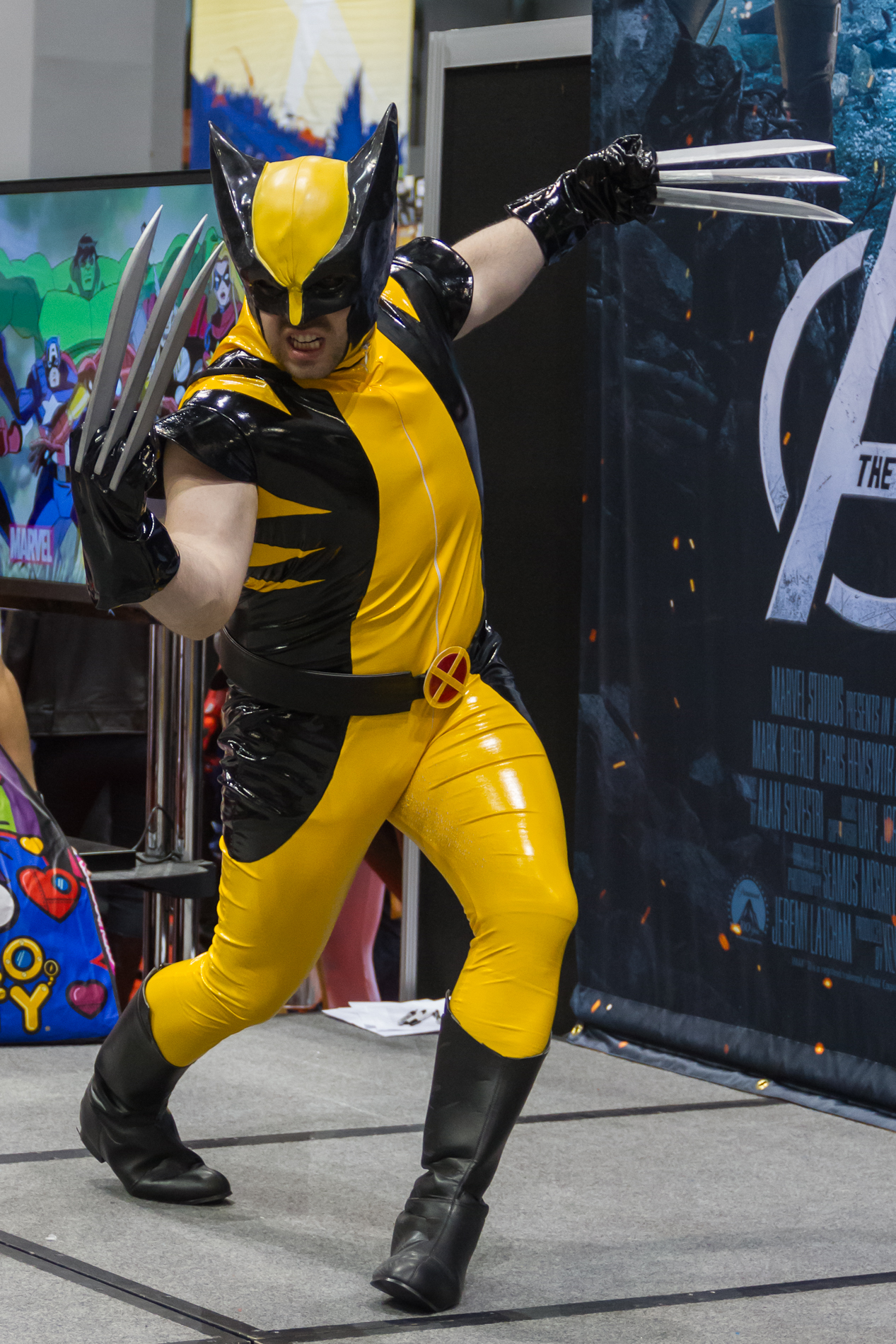 Wolverine Sharpening his claws at C2E2 2012 Marvel Costume contest